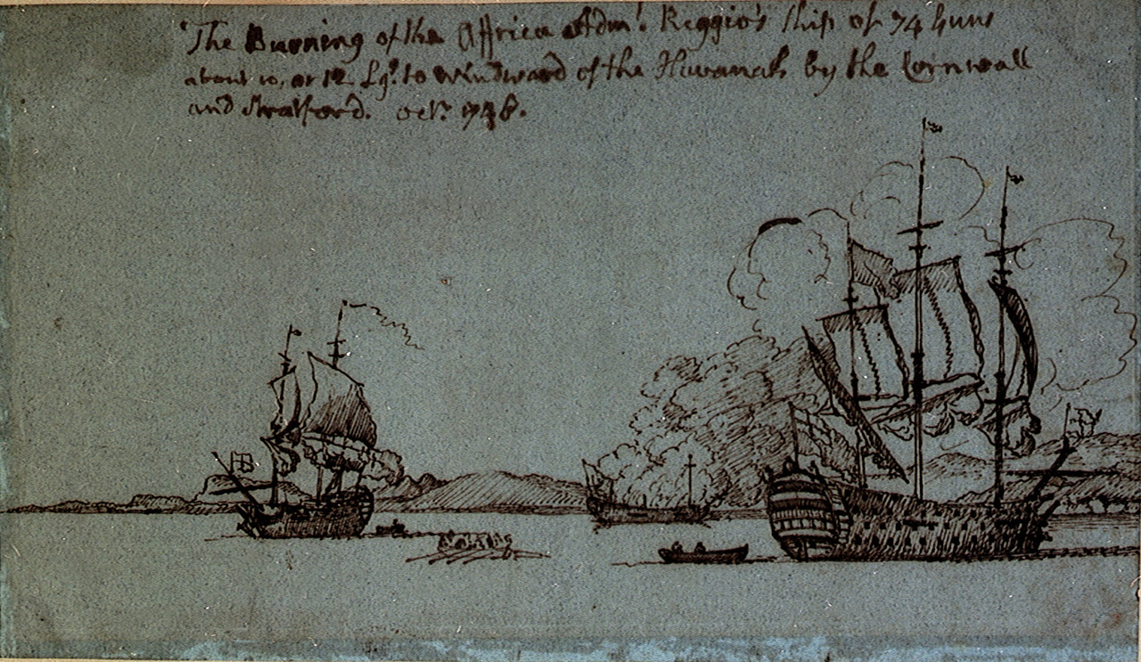 Drawing, inscribed at top, apparently by the artist 'The Burning of the Affrica Reggio's ship of 74 guns about 10 or 12 leagues to windward of the Havana by the Cornwall and Strafford. Oct 1748.' It shows the aftermath of the Battle of Havana - also called Knowles's Action - on 1 October when Admiral Don Andres Reggio, commanding the Spanish squadron in the 'Africa' (nominally of 70 guns but reported to have been carrying 75) had been chased into a small bay and burnt his ship to prevent her capture. Knowles's flagship 'Cornwall' (80 guns) is on the right and the 'Strafford' (50) on the left.